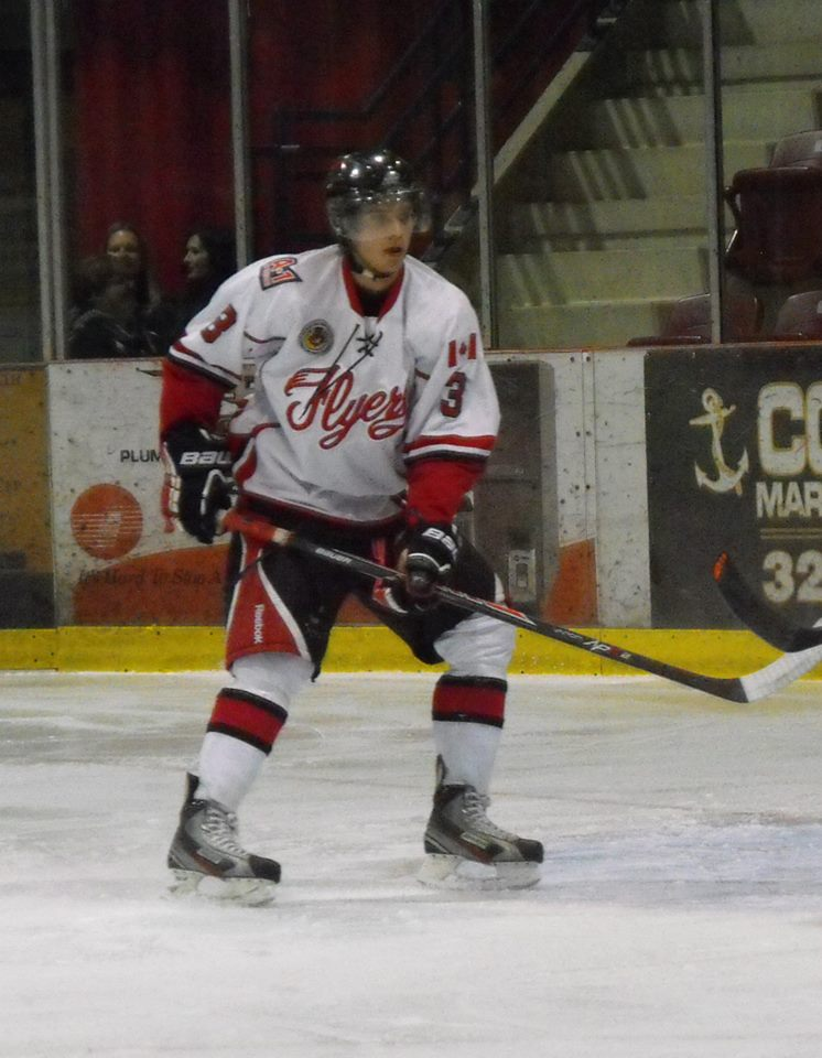 This photo was taken by Devan Mighton during the 2013-14 GOJHL season.